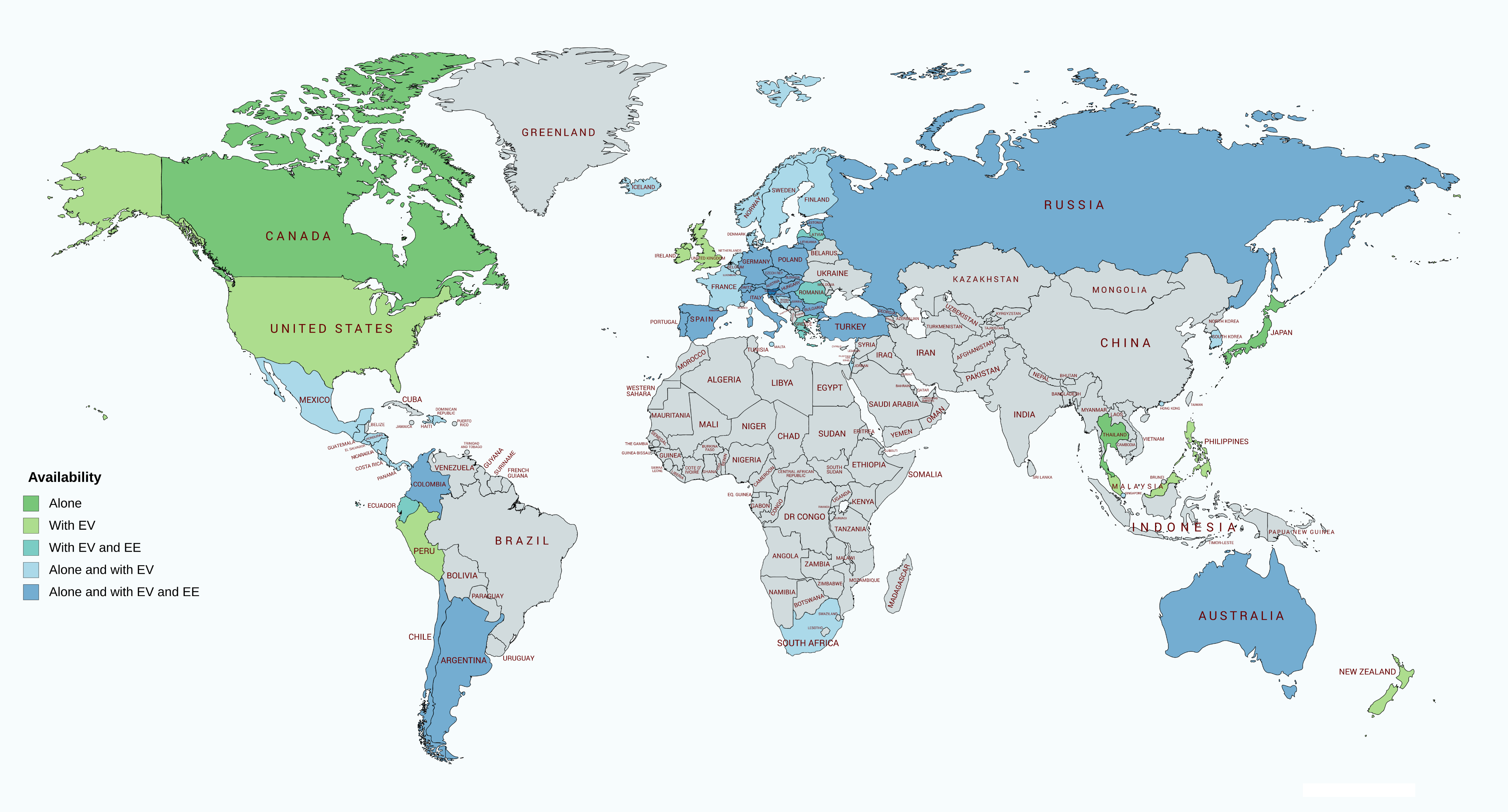 Current availability of dienogest as of August 2018.